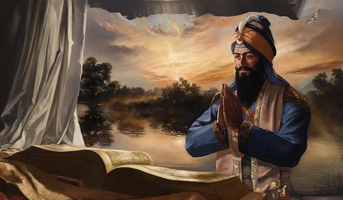 Guru Granth Sahib Ji